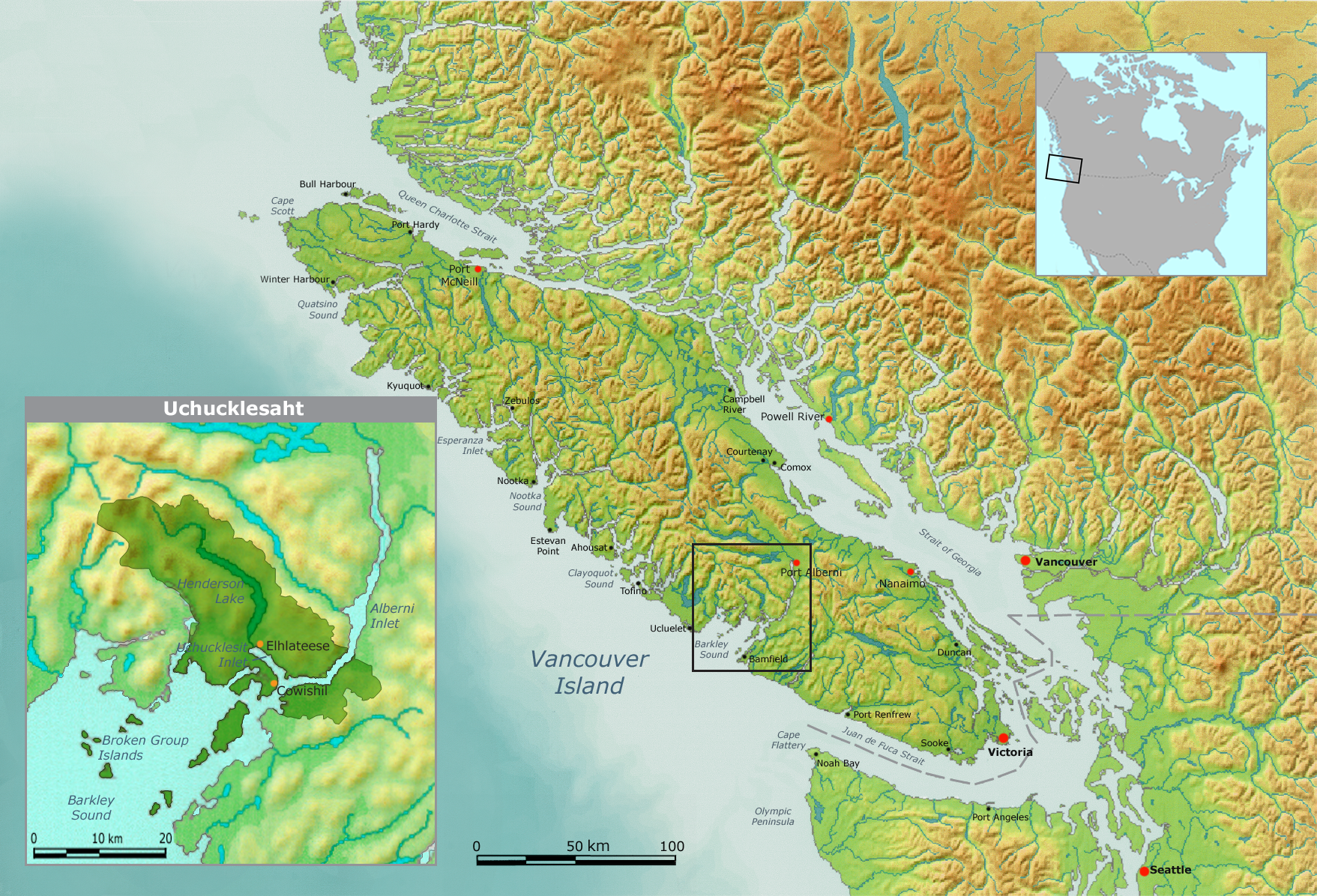 Map of Uchucklesaht tribal territory.